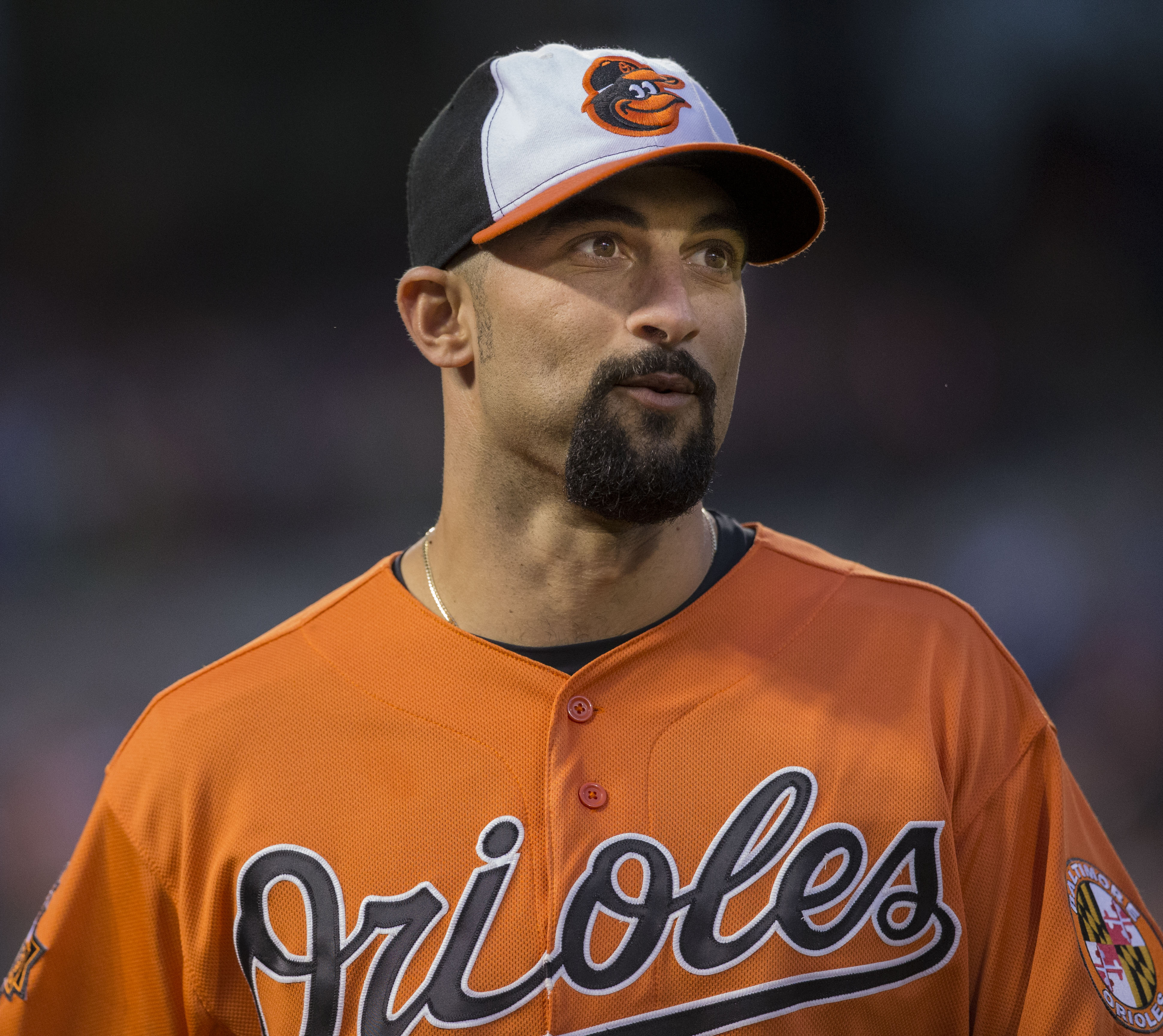 Royals at Orioles 4/26/14